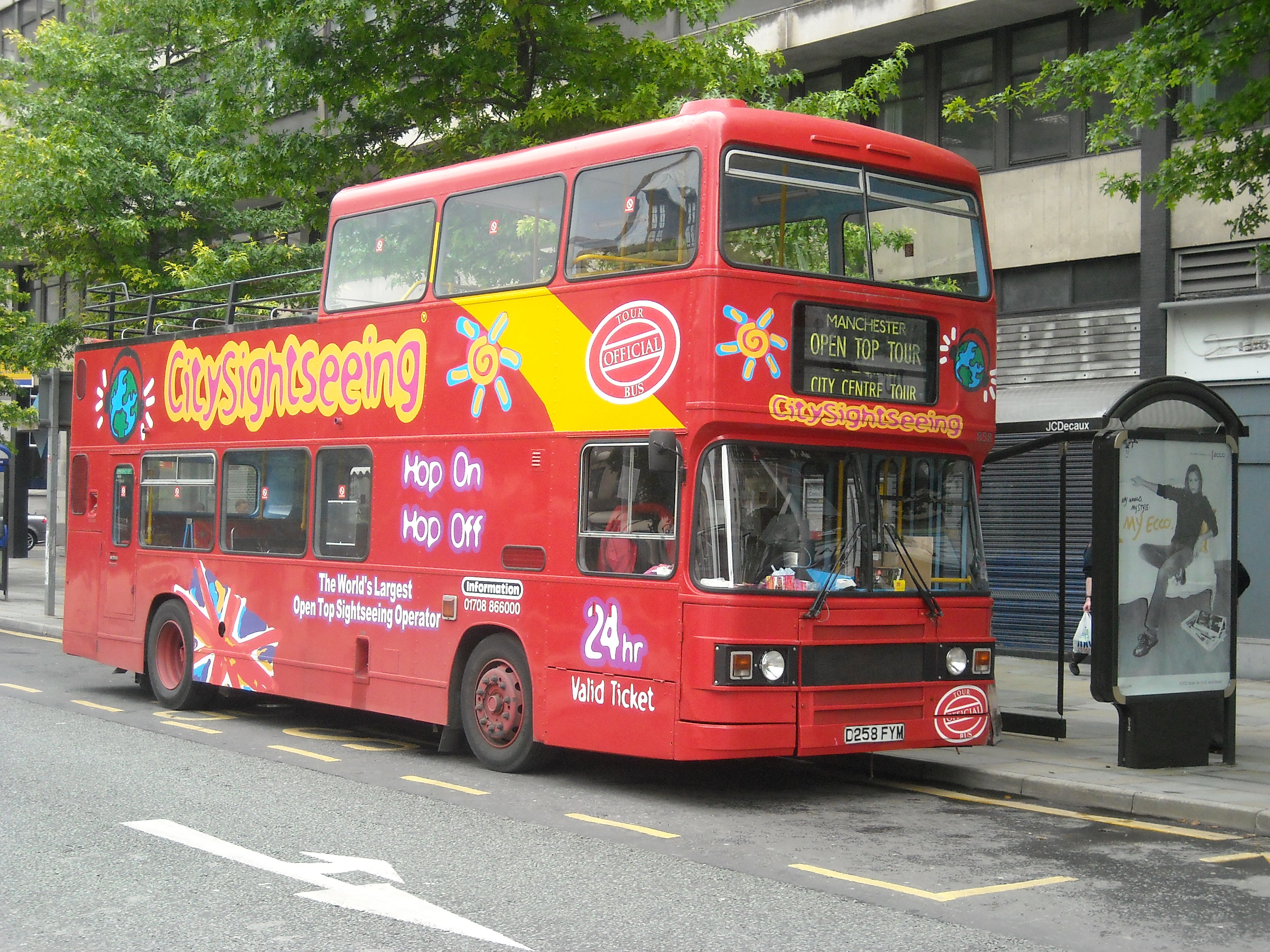 New to London Transport in 1986...this was taken on Saturday 13th September 2008.